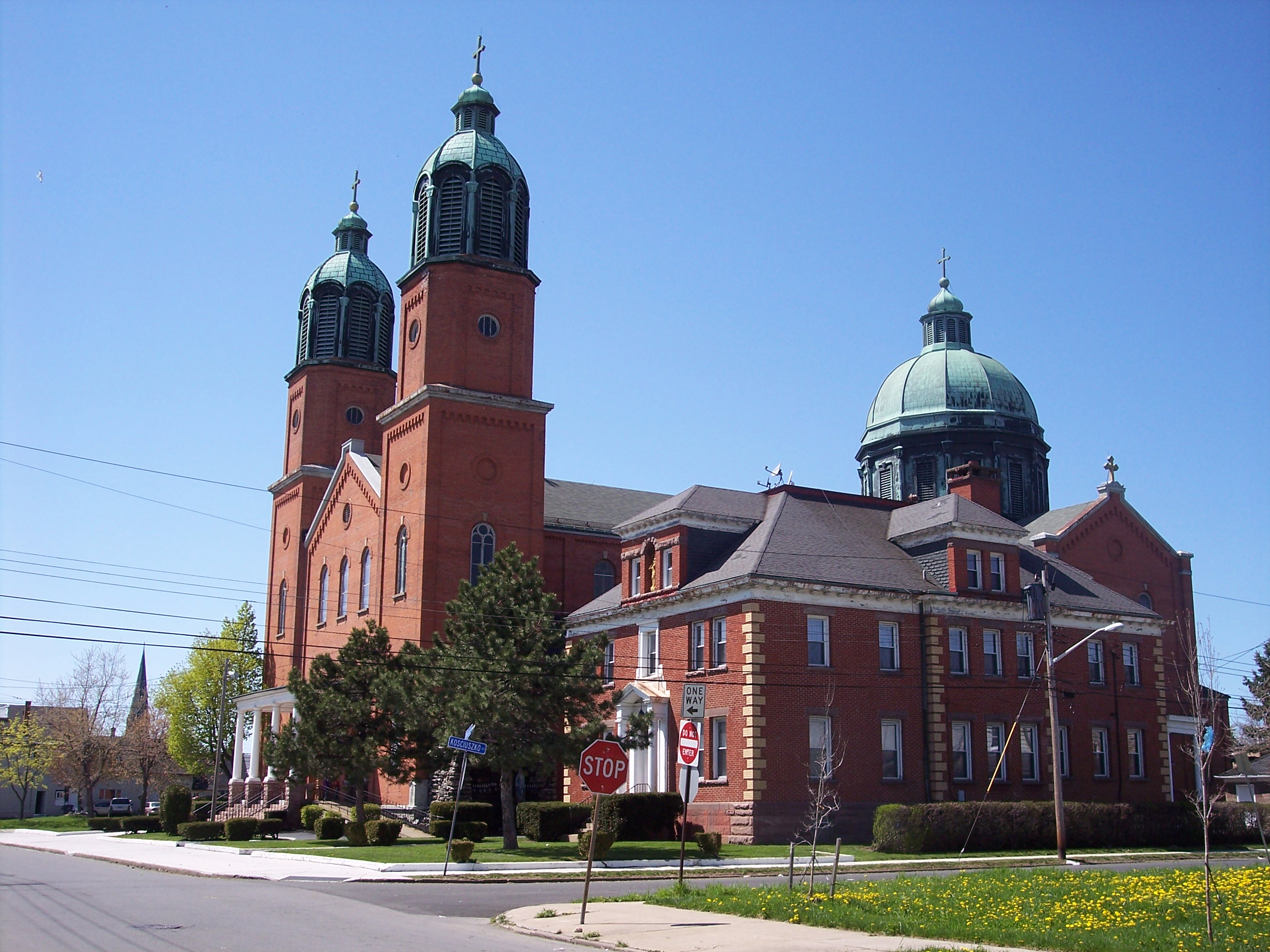 Saint Adalbert's Basilica, 212 Stanislaus Street, Buffalo, New York